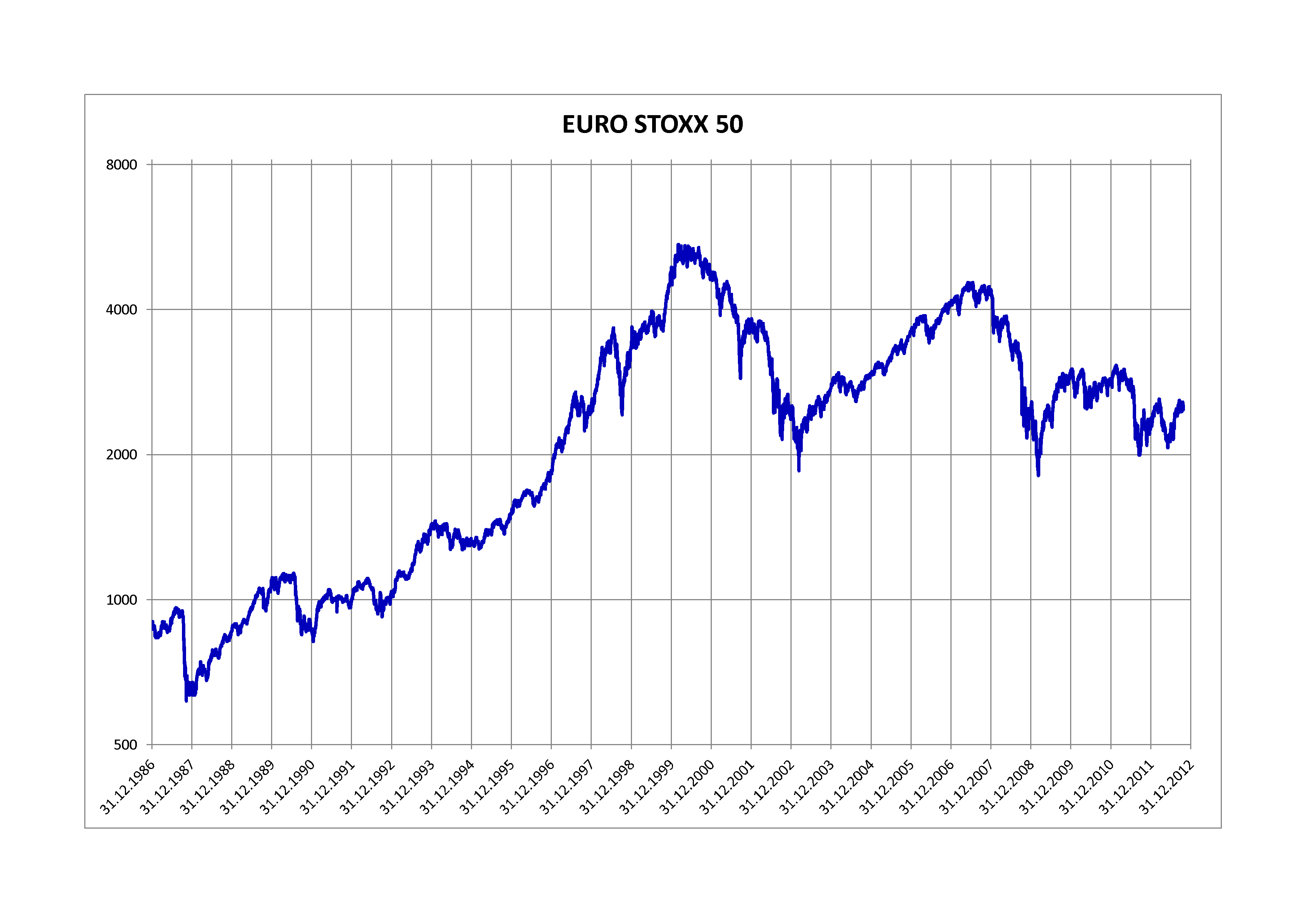 EURO STOXX 50 from December 1986 to October 2012 (daily closings)